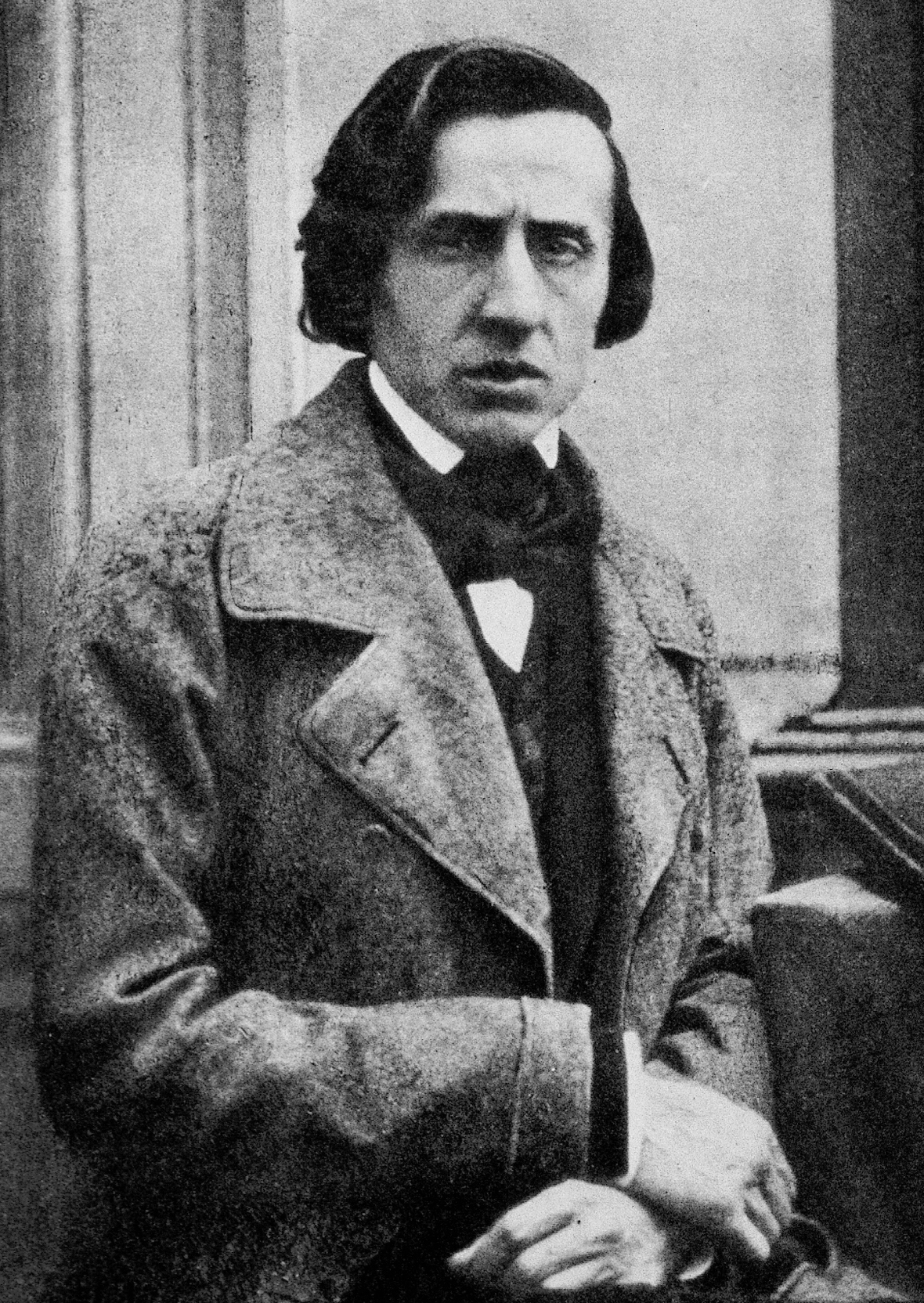 The younger and better of only two known photographs of Frédéric Chopin. This is from 1849, the older from 1847 you find here: File:Chopin1847 R SW.jpg